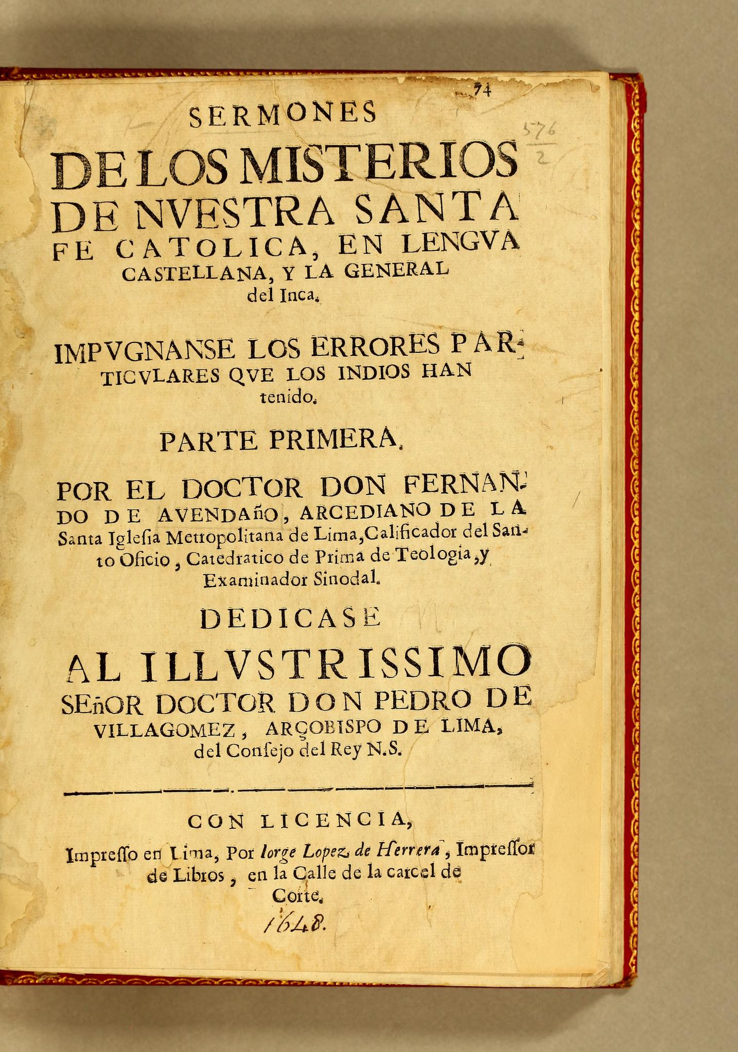 Title page of first edition ofSermones de los misterios de nuestra santa fe catolica, en lengua castellana, y la general del Inca by Fernando de Avendaño y González.